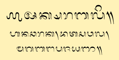 Example of Balinese script